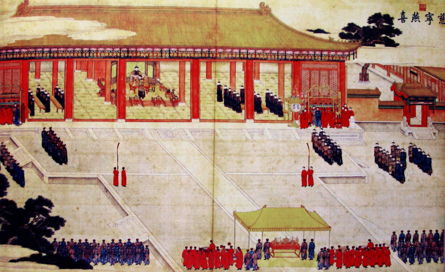 Imperial banquet for the Empress Dowager Xiao Sheng (Qianlong is serving his mother)